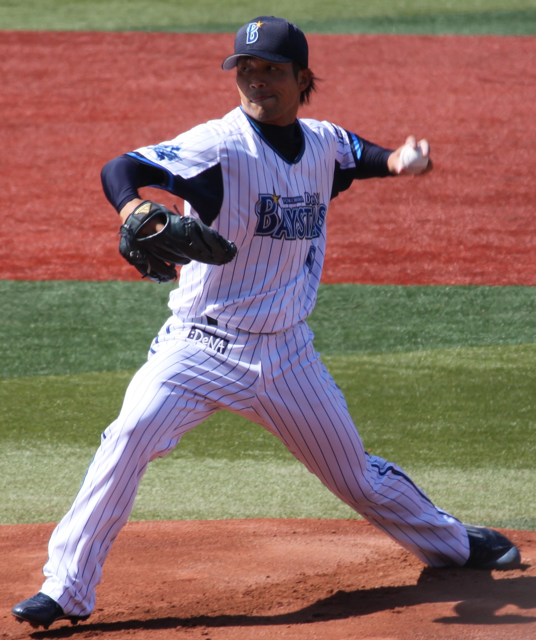 Shugo Fujii, pitcher of the Yokohama DeNA BayStars, at Yokohama Stadium.